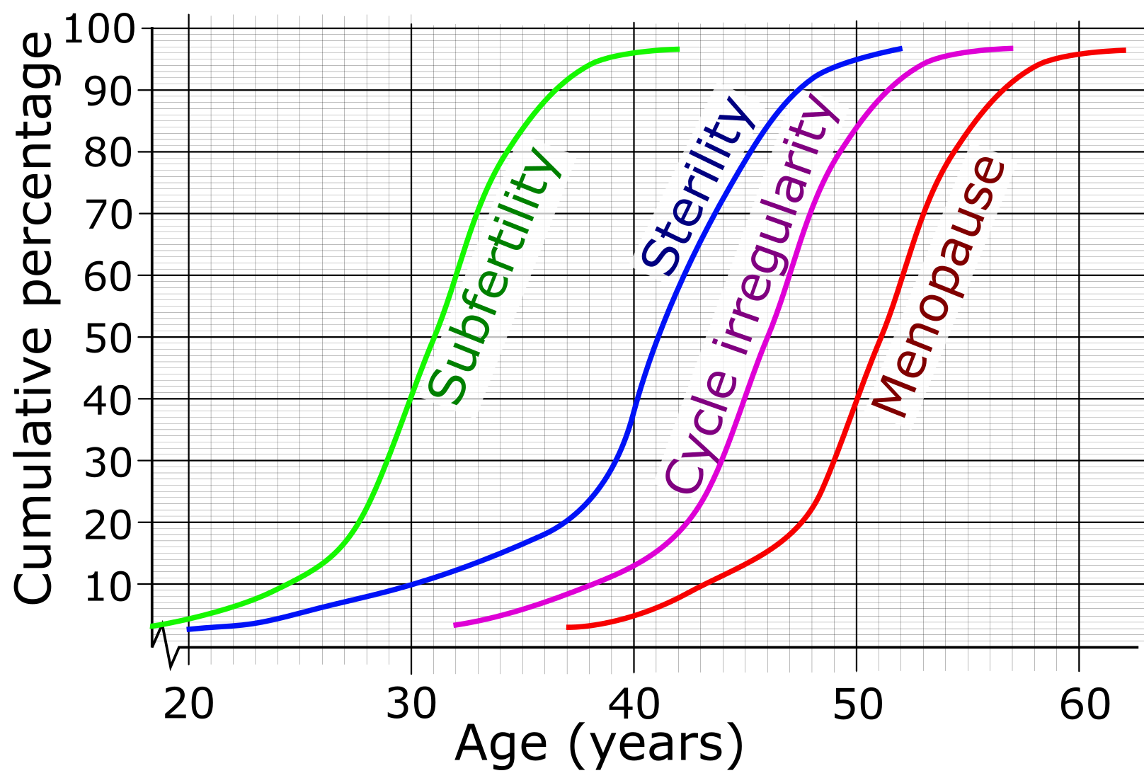 Age and female fertility.